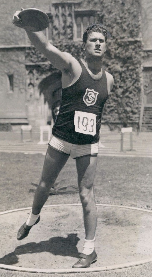 1936 Press Photo Kenneth Carpenter World Record Discus